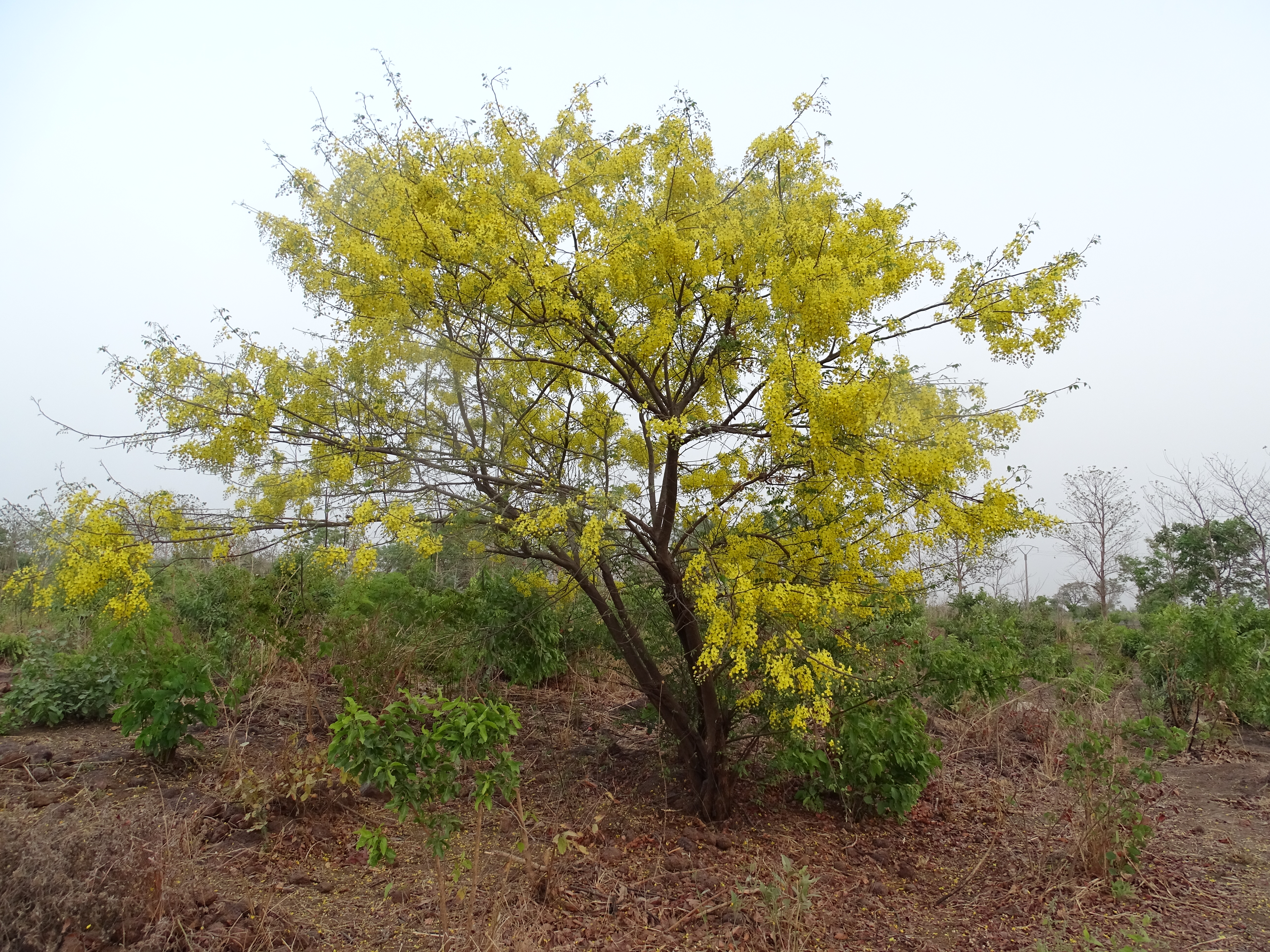 Cassia sieberiana is a tree of the family Fabaceae the size varies from 10 to 20 meters in height and has very bright yellow flowers. It is used for multiple medical purposes by local communities.